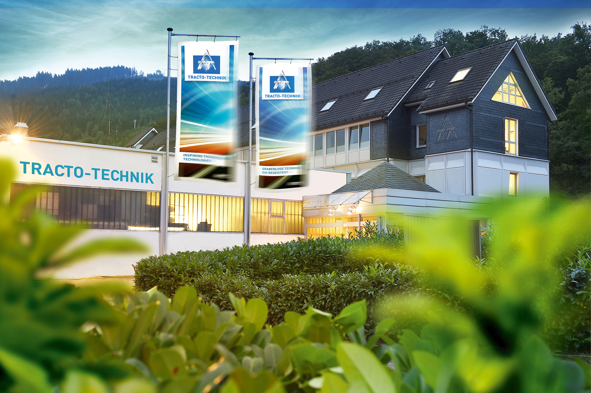 Headquarters Tracto-Technik GmbH & Co. KG in Lennestadt, Germany